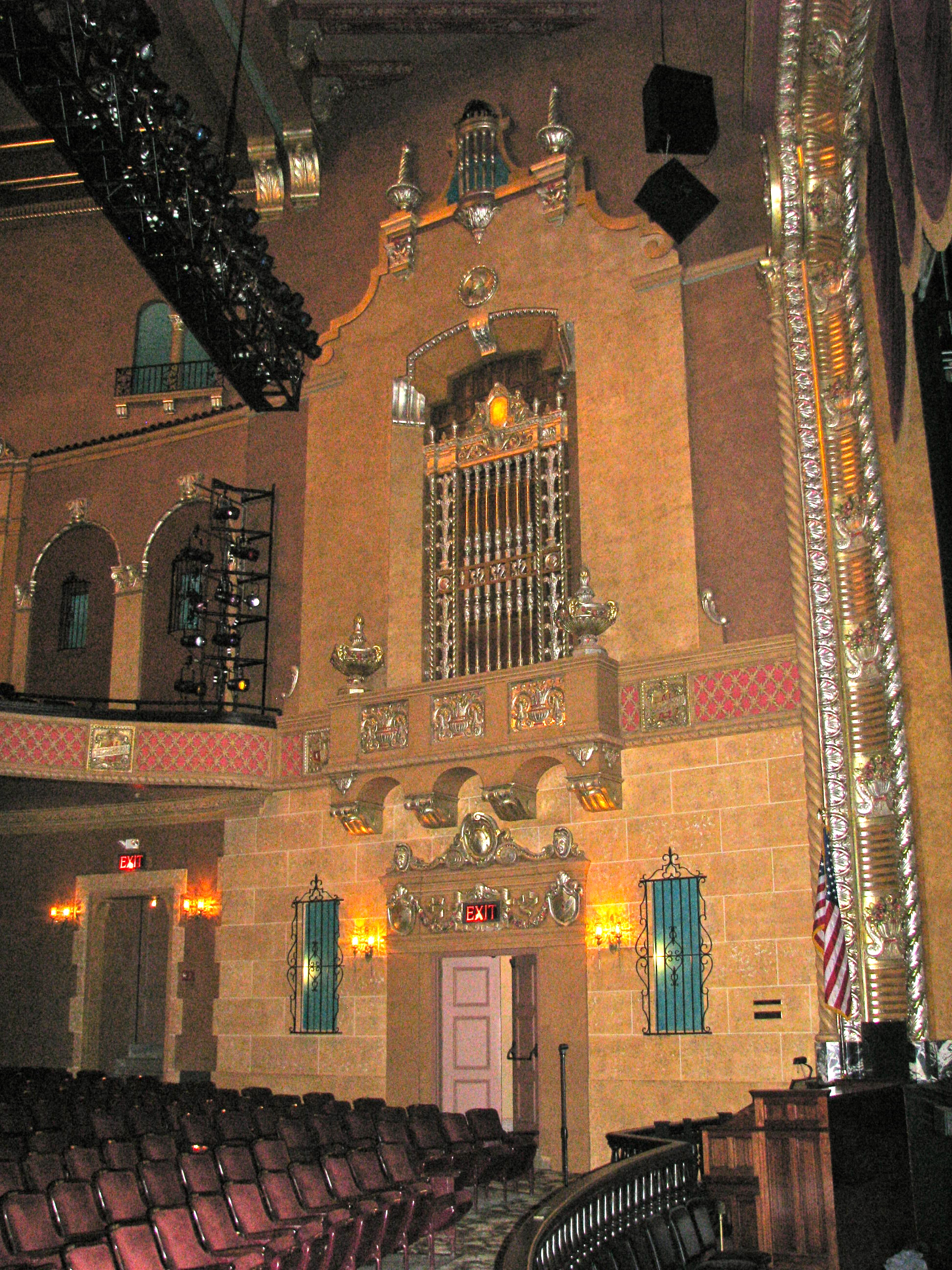 Jefferson Theatre interior from stage.